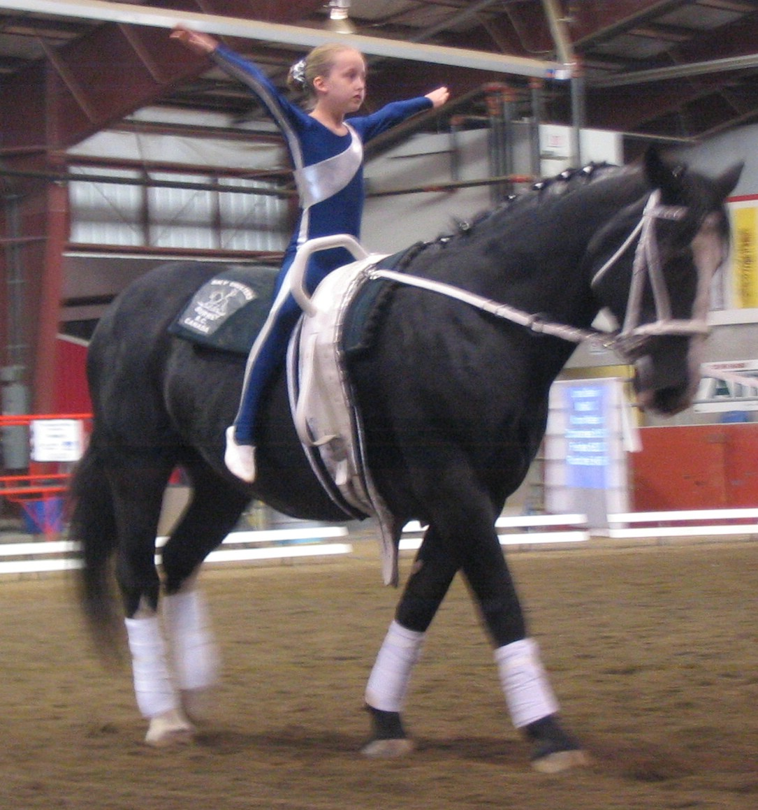 Equestrian vaulters typically perform in unitards. Basic seat. Side reins used on an equestrian vaulting horse.